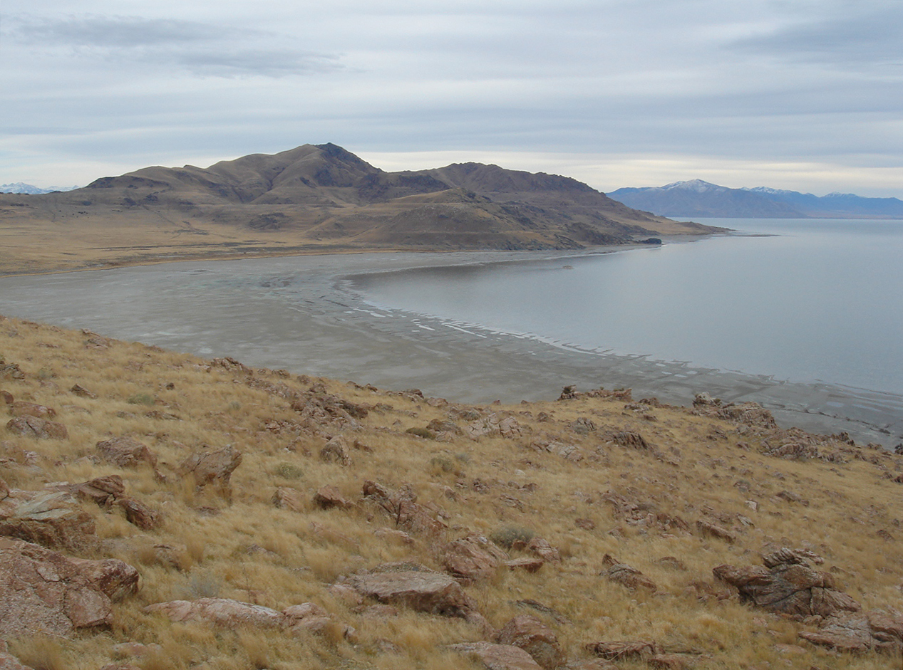 Beach at White Rock Bay viewed from Buffalo Point, Antelope Island. Note wave-cut platforms associated with old shorelines preserved from a much larger and deeper pluvial Lake Bonneville.